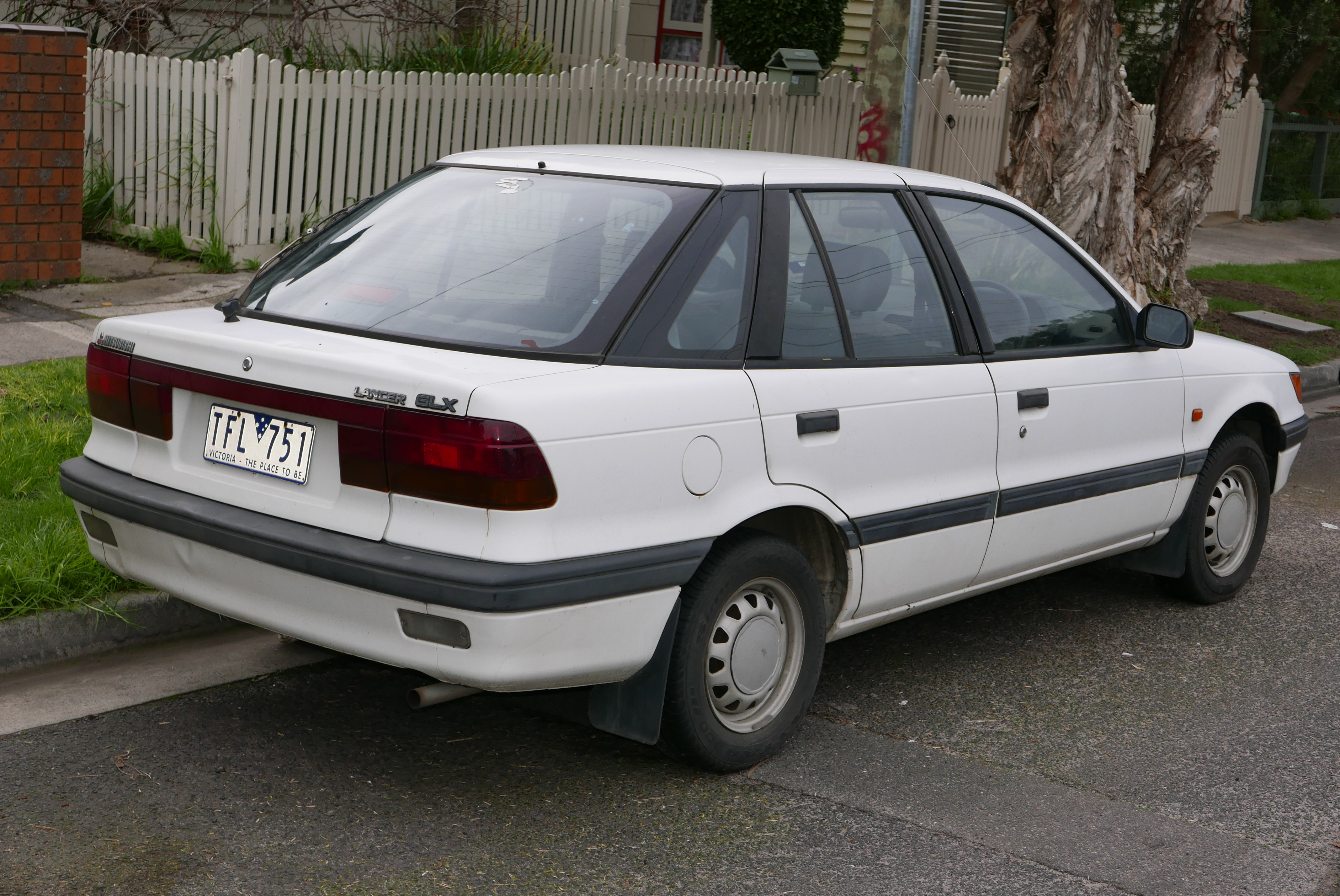 1991 Mitsubishi Lancer (CB) GLX 5-door hatchback. Photographed in Brunswick, Victoria, Australia. Vehicle registration enquiry results Jurisdiction Victoria Registration TFL751 Chassis code JMFCB2H44MJ011786 Engine code 4G15NX9816 Compliance date 1991-12 Year of manufacture 1991